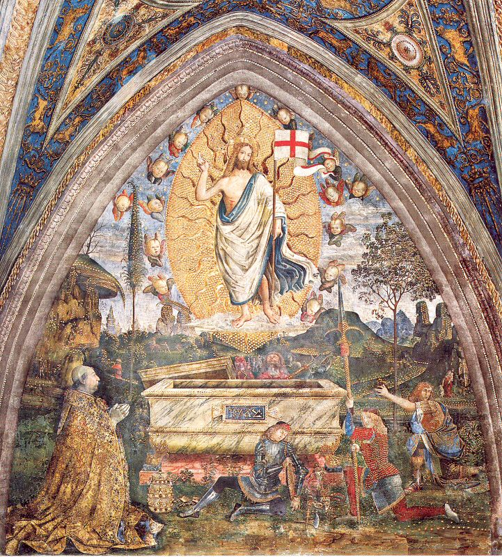 The Borgia Apartments (Appartamento Borgia) 1st Room: Hall of the Faith (Sala dei Misteri della Fede) Resurrection with Alexander VI